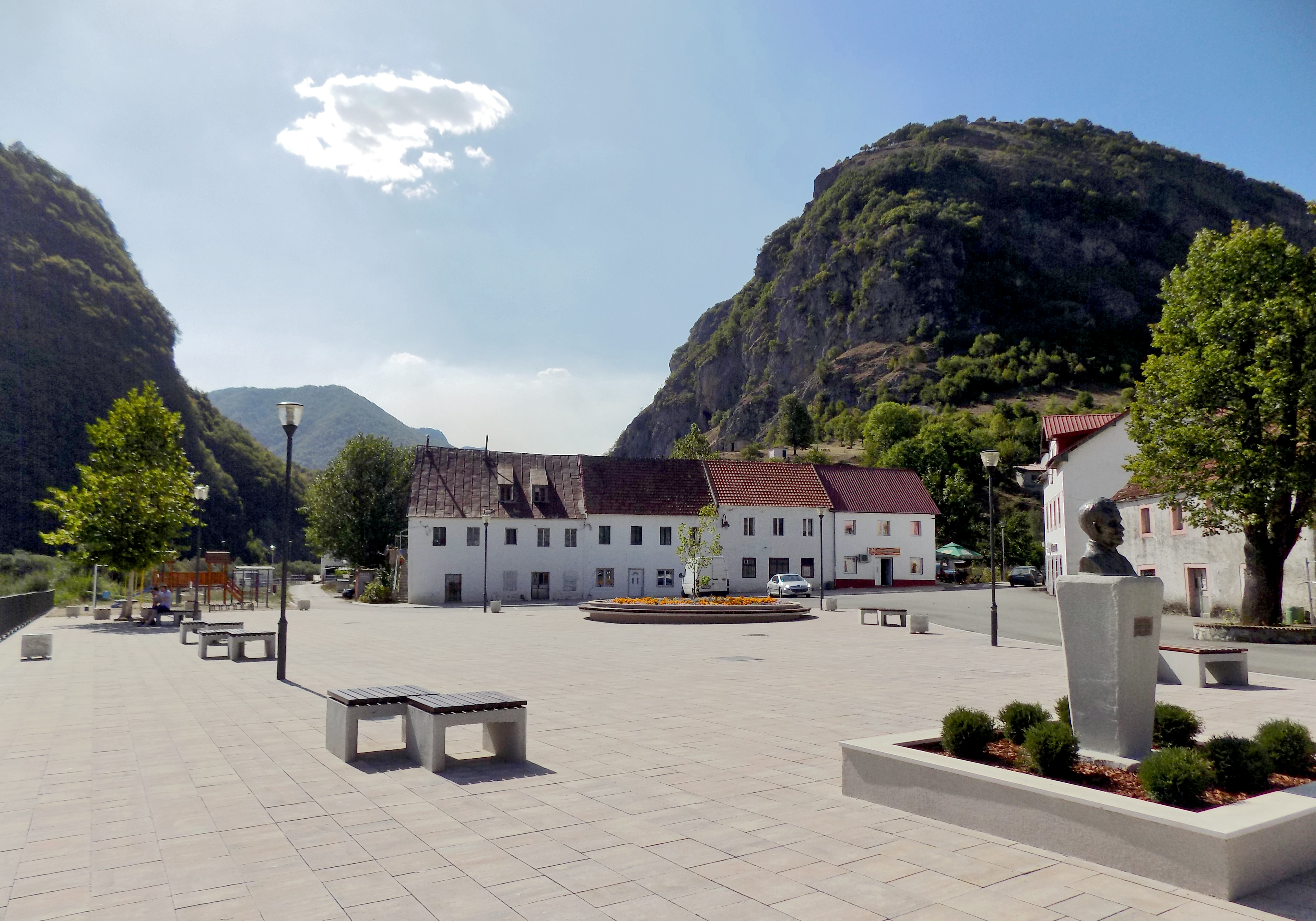 Šavnik, Montenegro, central square